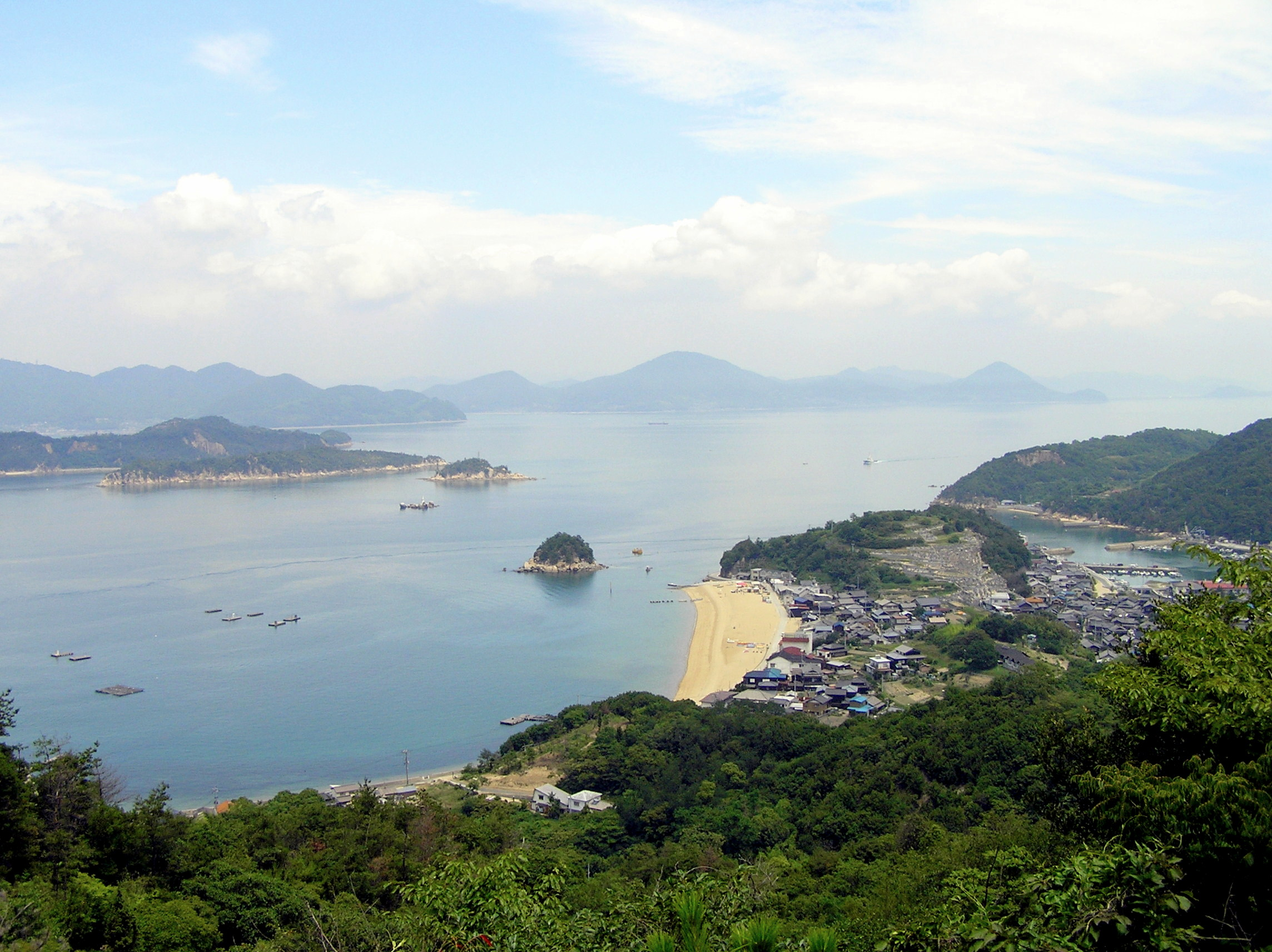 A view from a hill of Shiraishi Island, Japan.